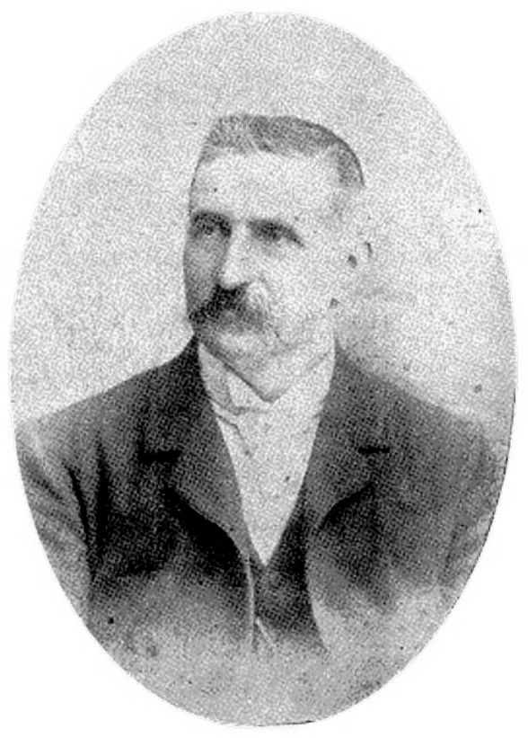 Colin Calder, the first chairman of Club A. Rosario Central.